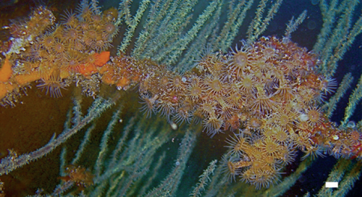 Colony of zoanthid Antipathozoanthus hickmani (Zoantharia: Parazoanthidae) covering a black coral Antipathes galapagensis (Antipatharia: Antipatidae). Several live colonies of Antipathes galapagensis visible in the background. Photo taken at the depth of 35 m near Pinzon Island (Galápagos Islands). Scale bar – 1 cm.